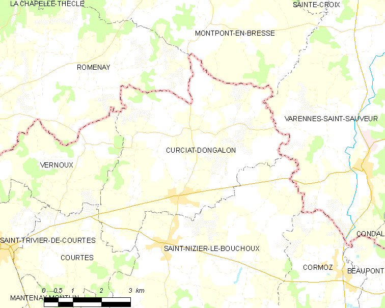 Map of French commune: Curciat-Dongalon Map commune FR insee code 01139.png